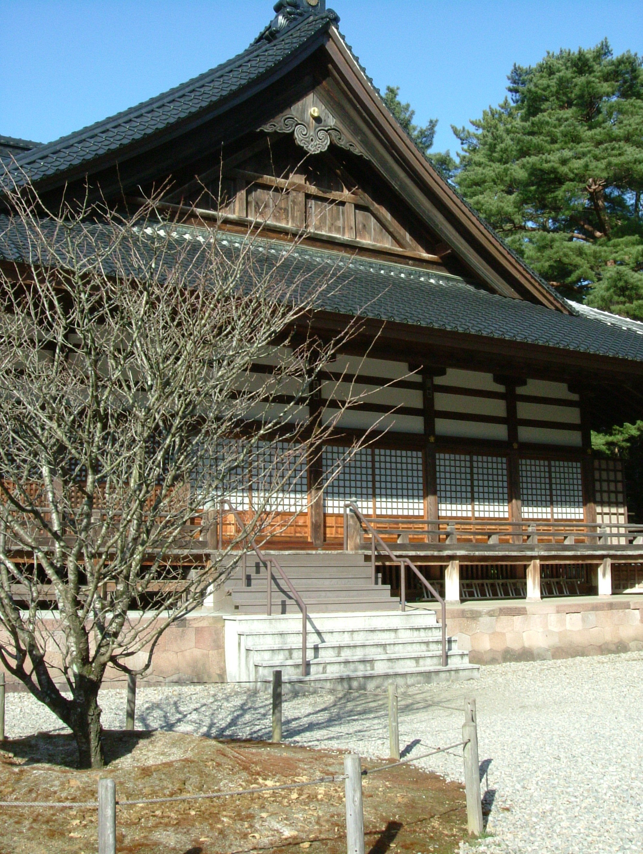 Oyama-jinja in Kanazawa, Ishikawa, Japan